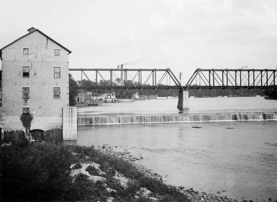 View of a truss bridge spanning the Kankakee River in Kankakee, Illinois.